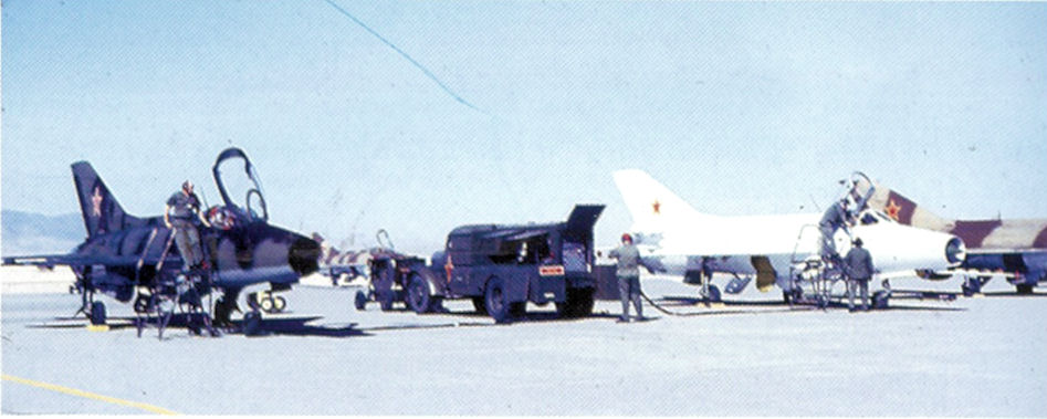 4477th Test and Evaluation Squadron - Flightline showing a black and grey MiG-21 F-13 alongside a white Chengdu J-7B